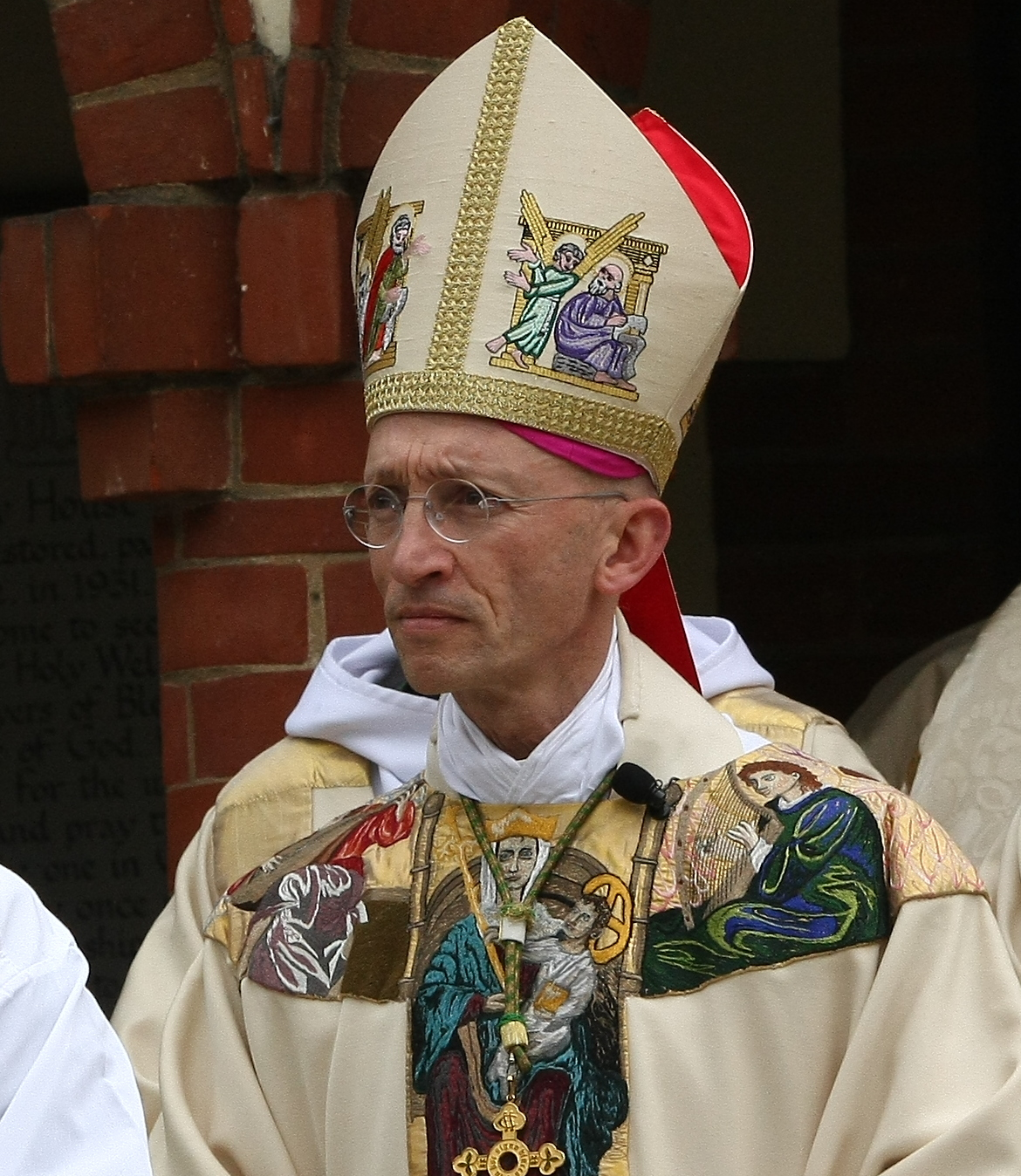 Rt Revd Martin Warner, Bishop of Whitby, at Walsingham